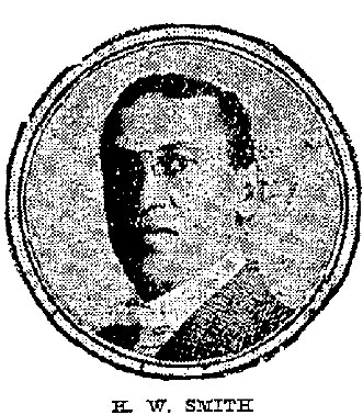 Hurlburt W. Smith - one of the original founders of the Smith Premier Typewriter Company